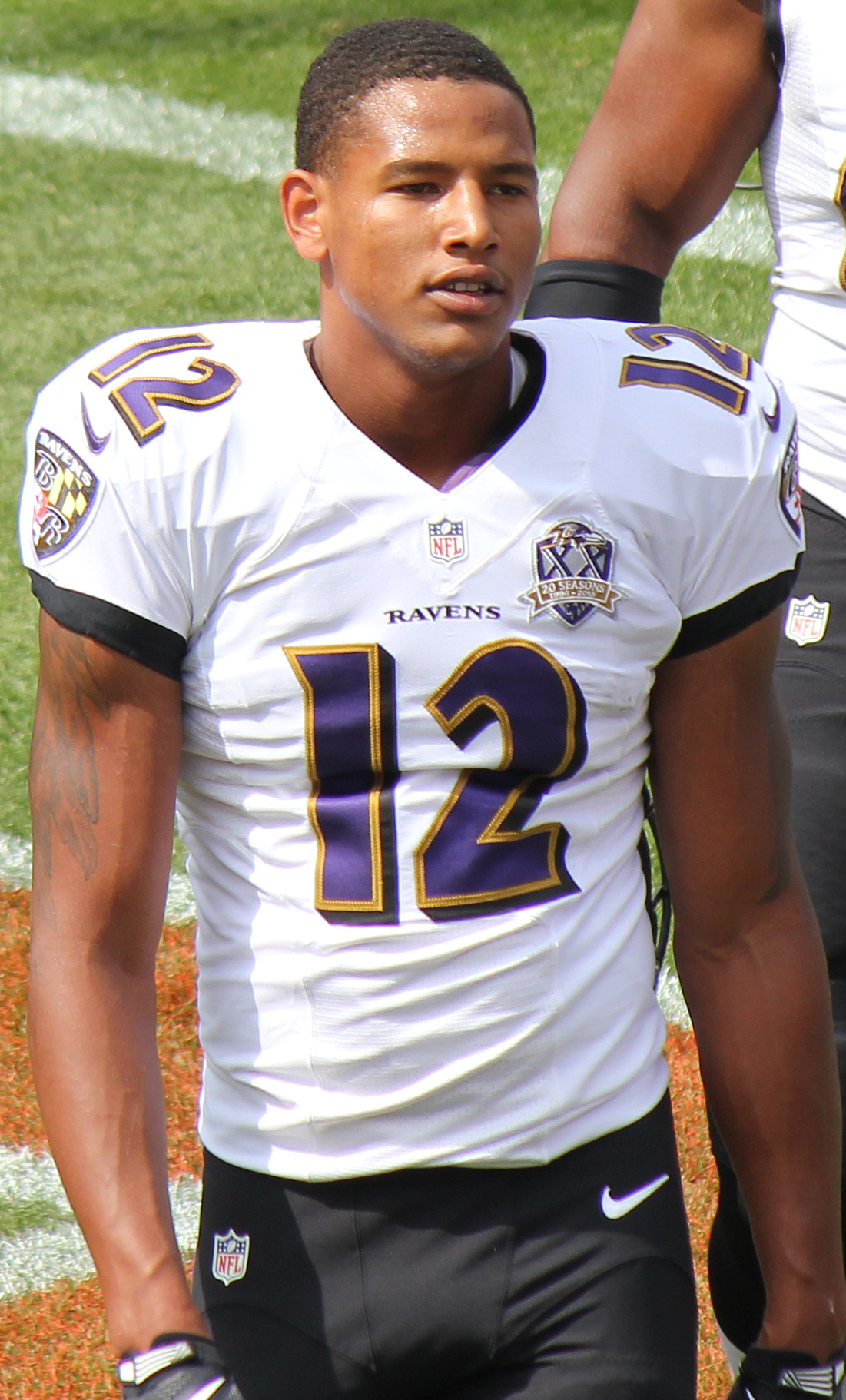 Darren Waller, a player on the National Football League.